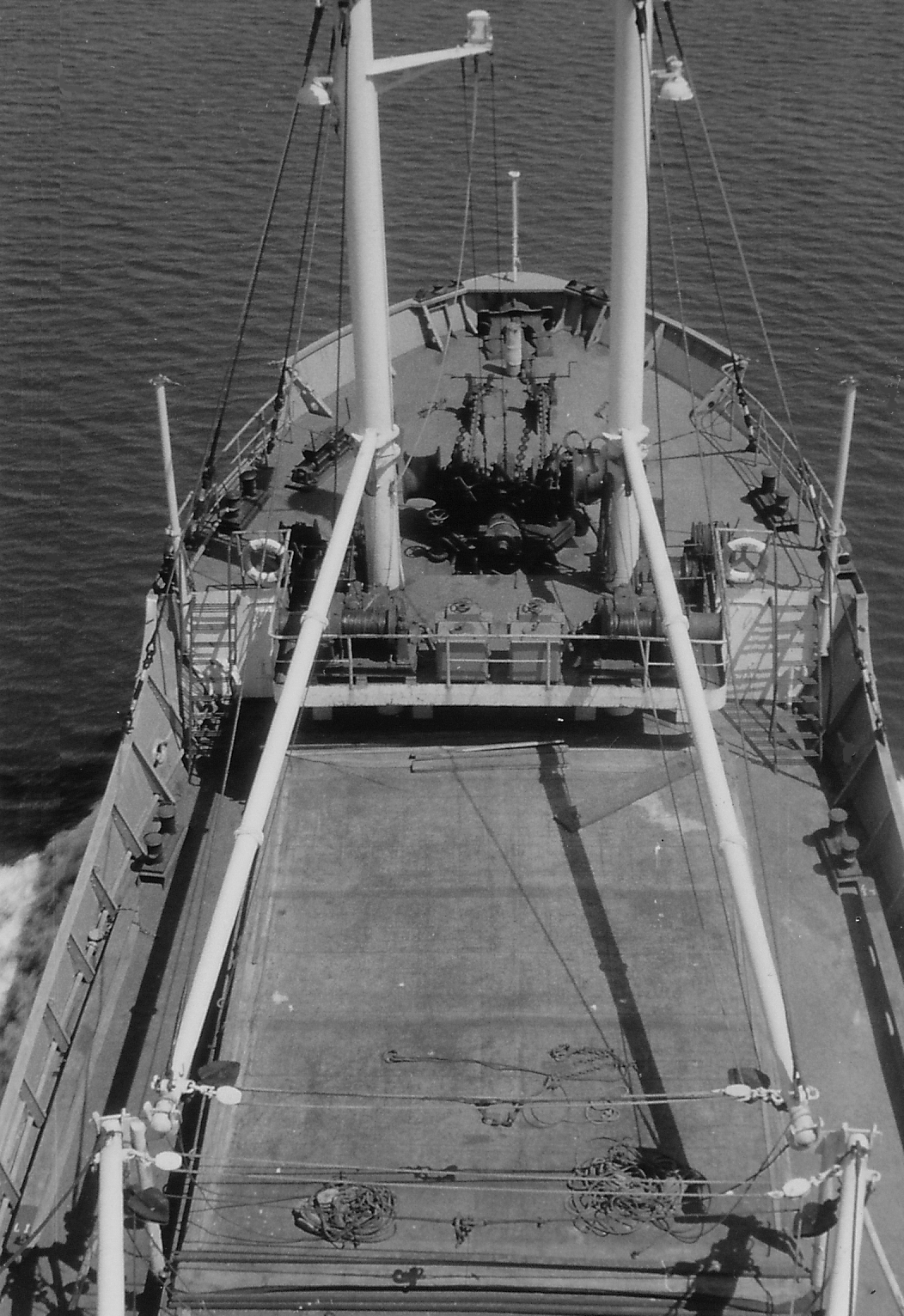 View from the mast to hatch 1 and to the bow of motor vessel Elfriede - 1956